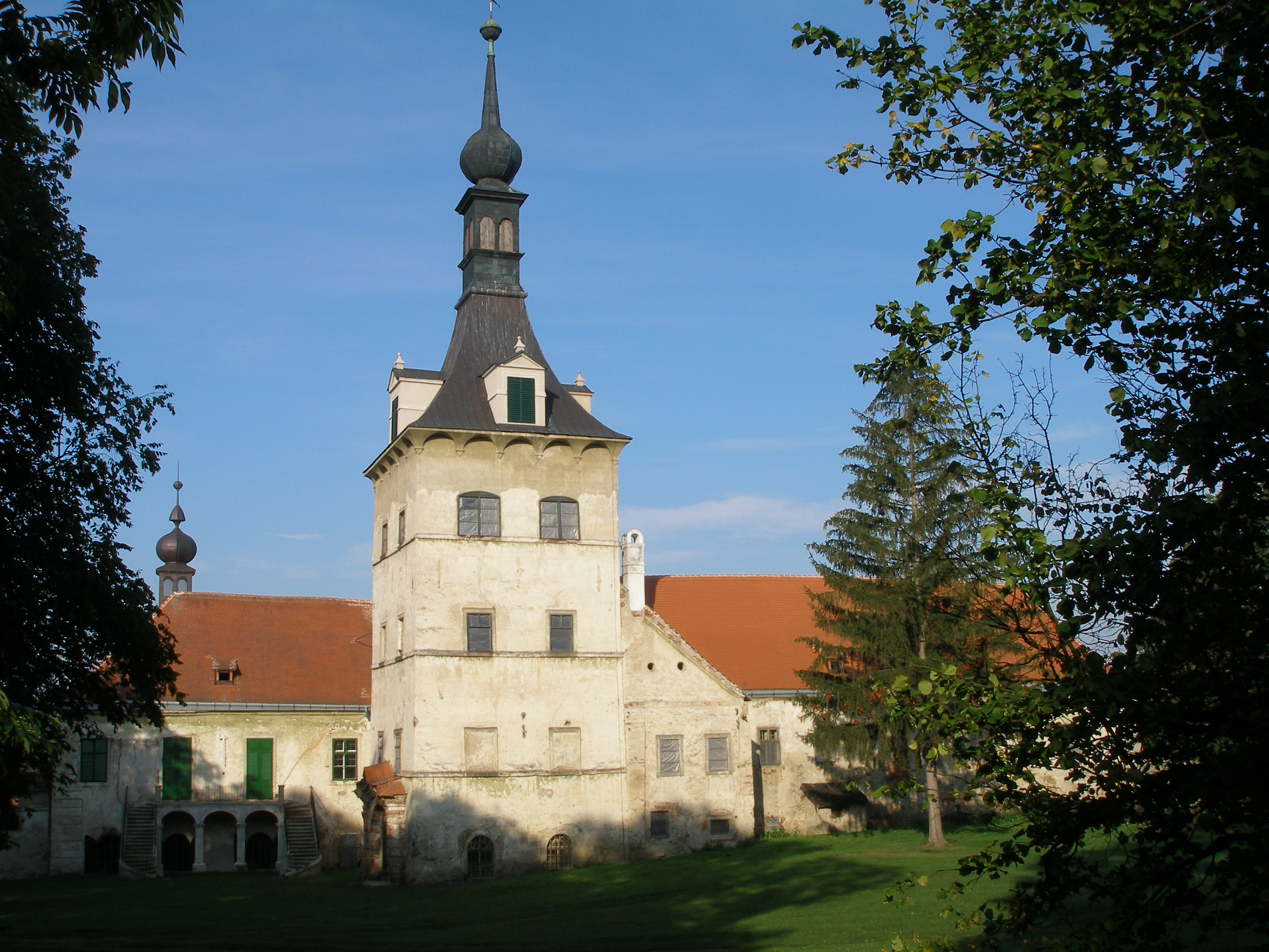 Castle in Uherčice (district Znojmo) - the Eastern view of the main castle building